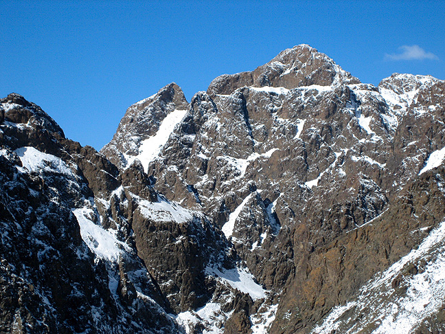 Peaks above Yoliin Am in the Gurvansaikhan Mountains of Mongolia, after an early autumn snow.